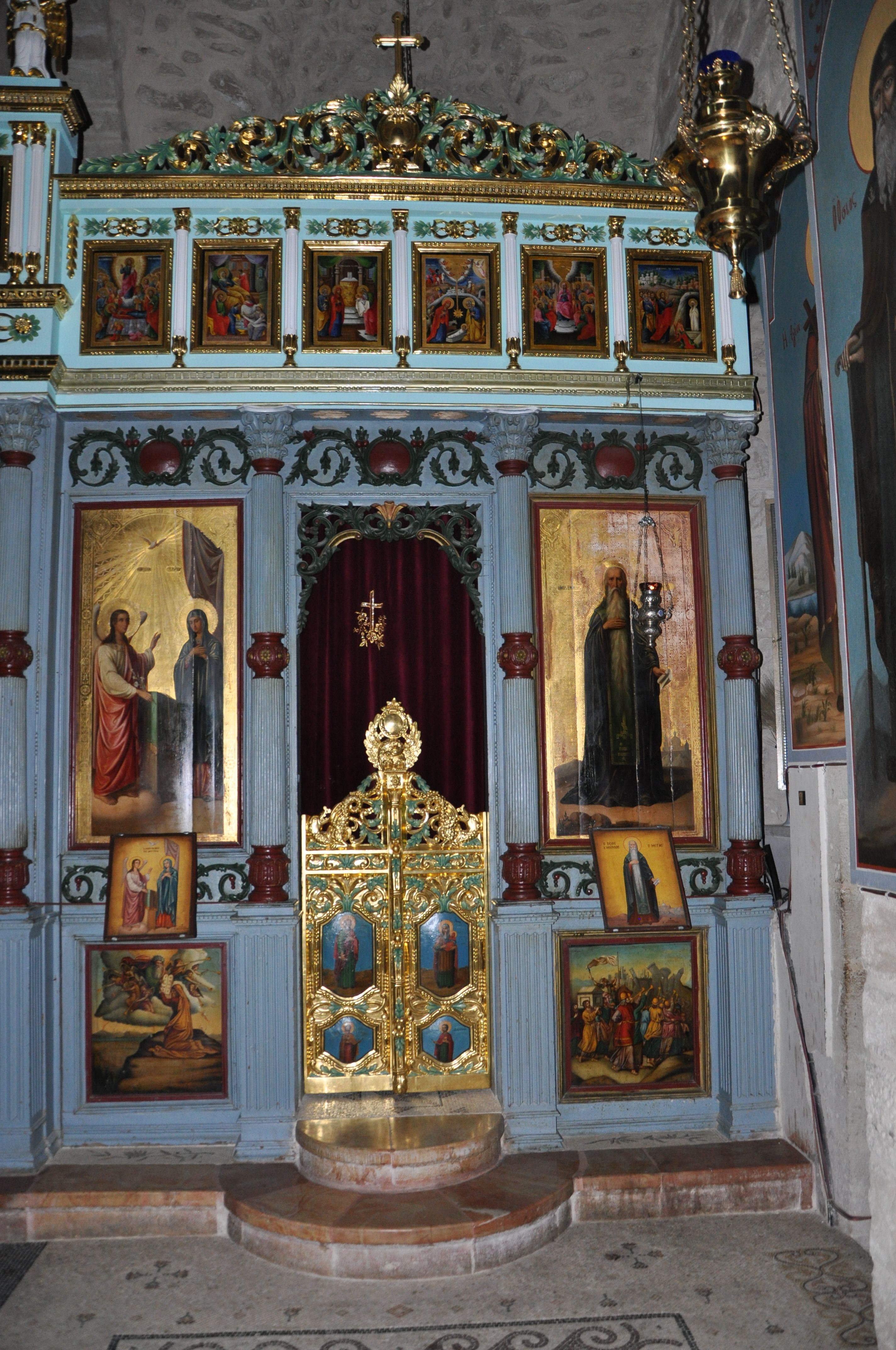 iconostasis Gersim